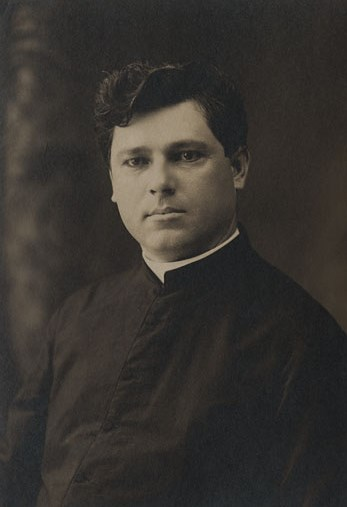 As a student in theology at the University of Manitoba, John Bodrug was one of the first Ukrainian students of a university in North America. Later, he became a charismatic priest as head of a new Independent Church, preaching an evangelical Christianity because of the Presbyterian influence.